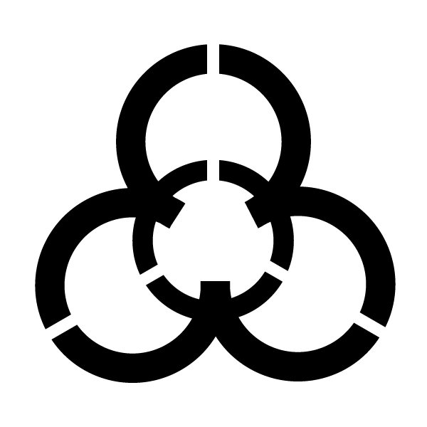 Emblem of Kantou Prefecture (Dairen and Ryojun) and Dairen City, used from 1905 till 1945.